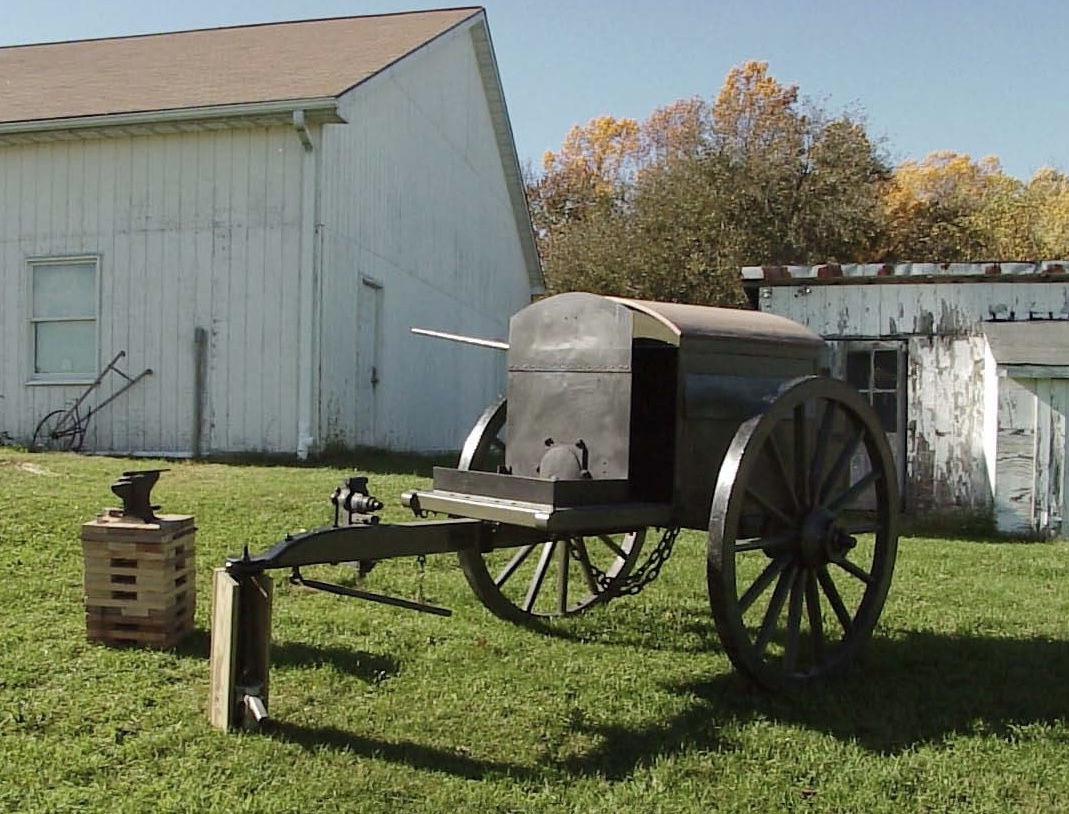 This is a photograph of a reproduction U.S. Civil War era Army traveling forge constructed over a four year period by David Einhorn, the author of the book "Civil War Blacksmithing".